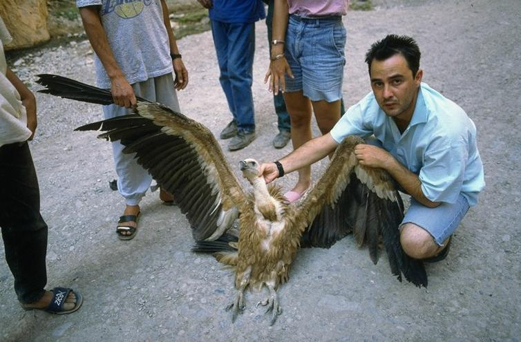 Griffon vulture poisoned, Morocco, Atlas mountains